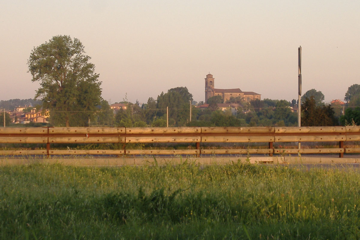 Panorama of Santo Stefano Lodigiano - Italy